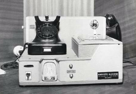 Automatic responder from italian producer & inventor Arnaldo Piovesan